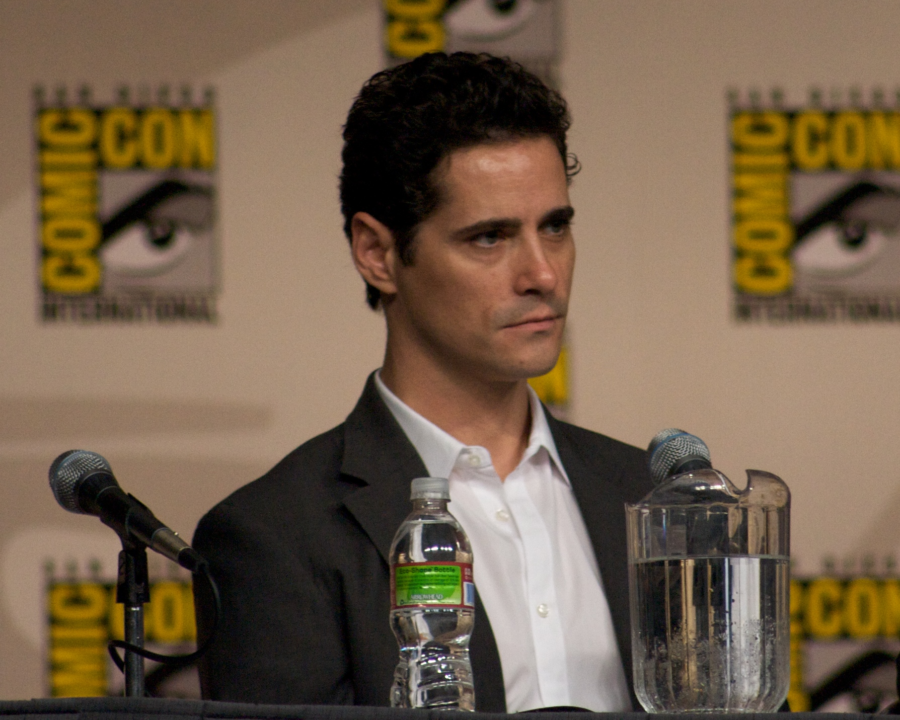 Seth Peterson, listening to a question at the Burn Notice Panel, Comic Con 2009